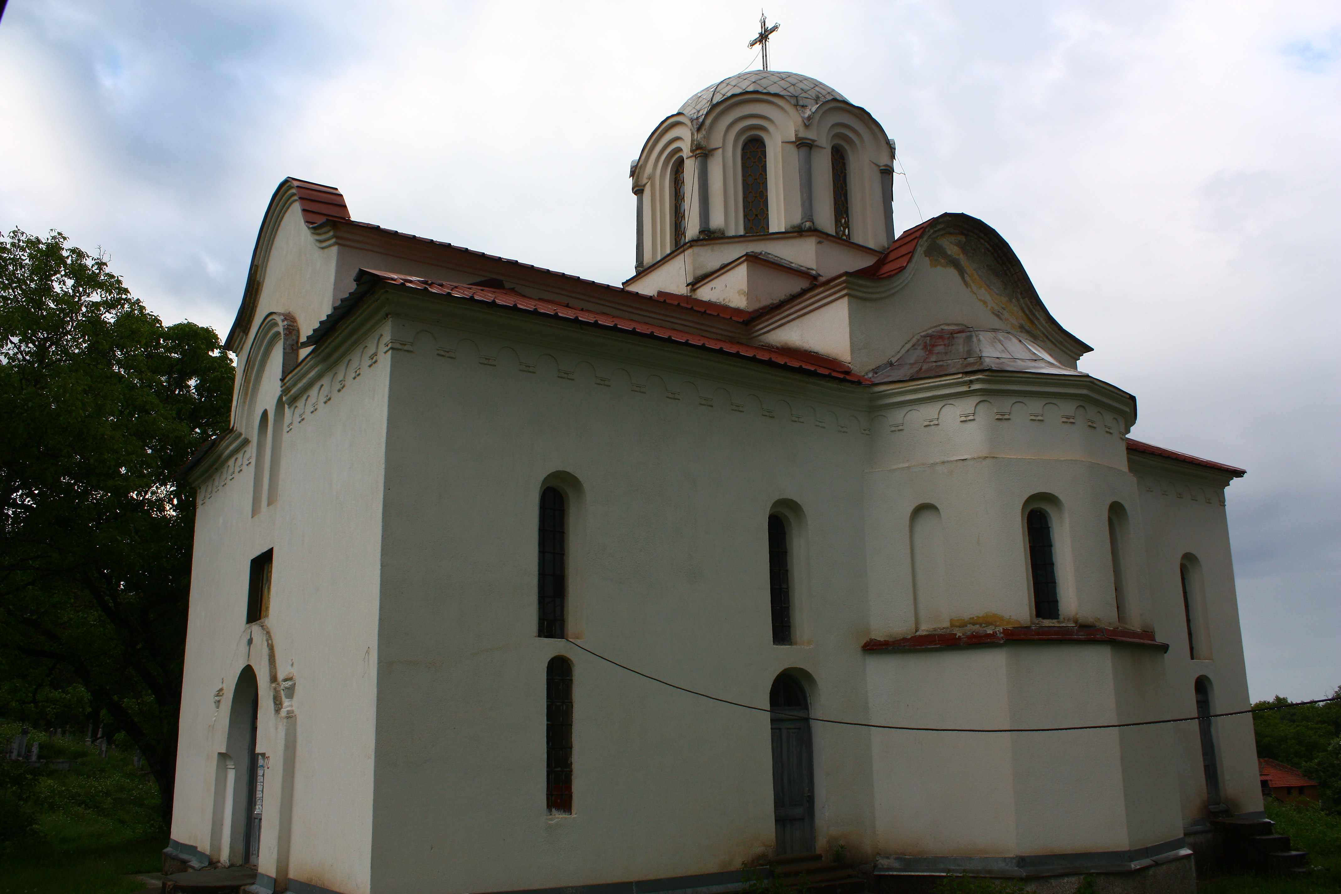 St. Nicholas Church in Požarane, Macedonia